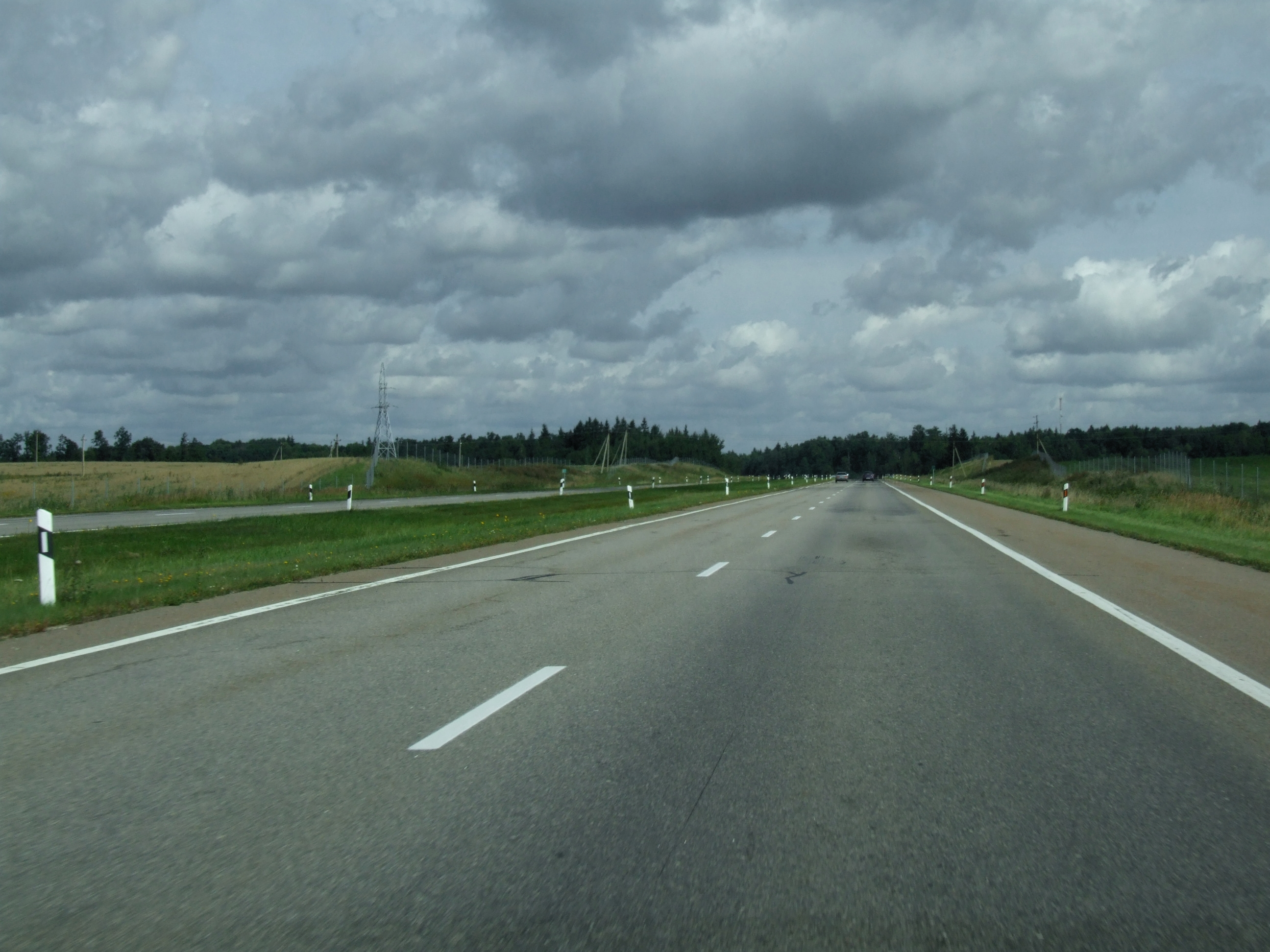 A2 highway in Lithuania